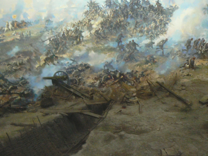 Photo from the Panorama "Pleven epopee 1877", Pleven, Bulgaria